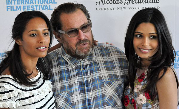 Rula Jebreal, Julian Schnabel, and Freida Pinto attending the 18th Annual Hamptons International Film Festival Chairman's Reception on October 9, 2010 at the home of Stuart Suna in East Hampton, New York. Photo © Nick Stepowyj Camera: Nikon D5000 License on Flickr (2011-02-09): CC-BY-2.0 Flickr tags: HIFF, Rula Jebreal, Julian Schnabel, Freida Pinto